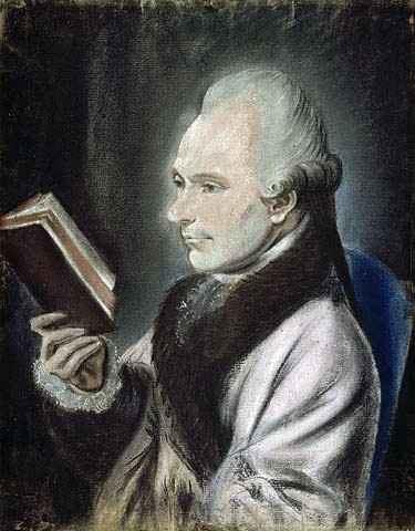 Portrait of Joseph Frederick Wallet Desbarres, credited to James Peachey, ca. 1785. Library and Archives Canada/Desbarres collection/C-135130